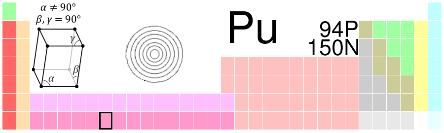 Position of plutonium in the periodic table with other data about the element. The scheme shows the periodic table with a simplified electron shell diagram. The last two numbers followed by a letter are the number of Protons (94P) and the number of the neutrons (150N) for the longest-lived plutonium isotope, Pu-244. All info can be verified in the book Holleman, Arnold F.; Wiberg, Egon; Wiberg, Nils; (1985) "Niob" in (in german) Lehrbuch der Anorganischen Chemie (91–100 ed.), Walter de Gruyter ISBN: 3110075113. .